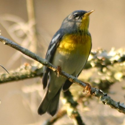 Author: Daniel Berganza I took this picture in Florida